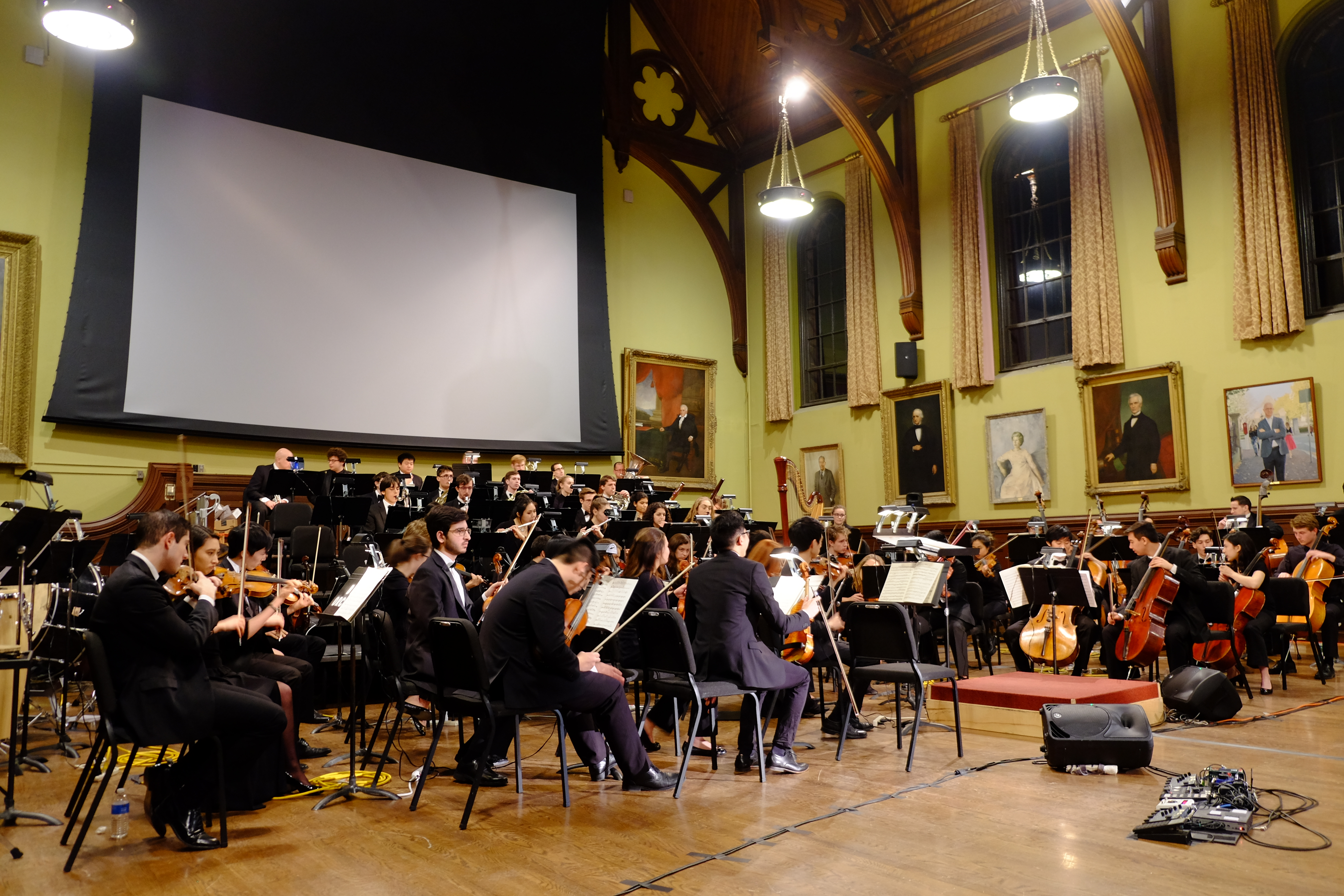 The Brown University Orchestra playing at Sayles Hall on 3 March 2018.